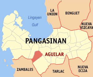 Map of Pangasinan showing the location of Aguilar